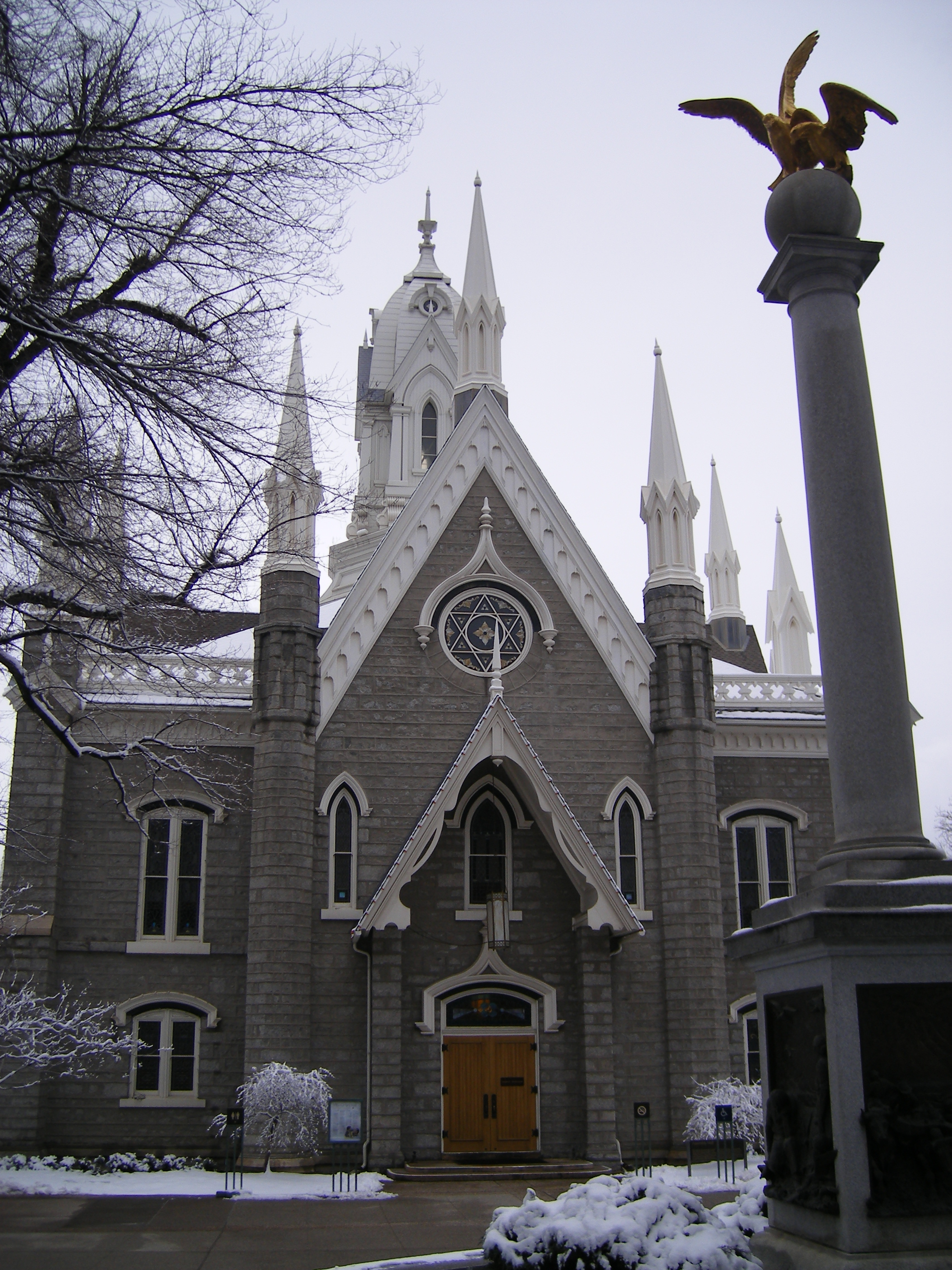 Photograph of Salt Lake Assembly Hall after a fresh snow with the Seagull Monument commemorating the Miracle of the Gulls in the foreground